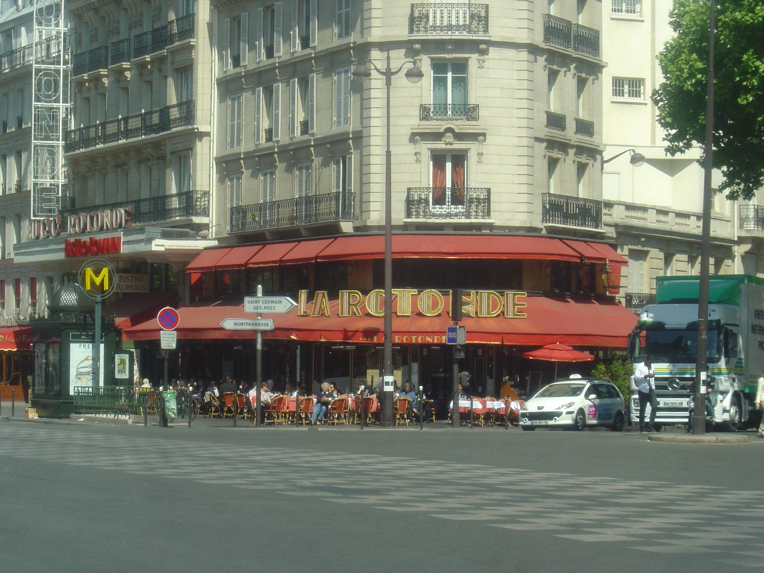 Cafe La Rotonde, Paris